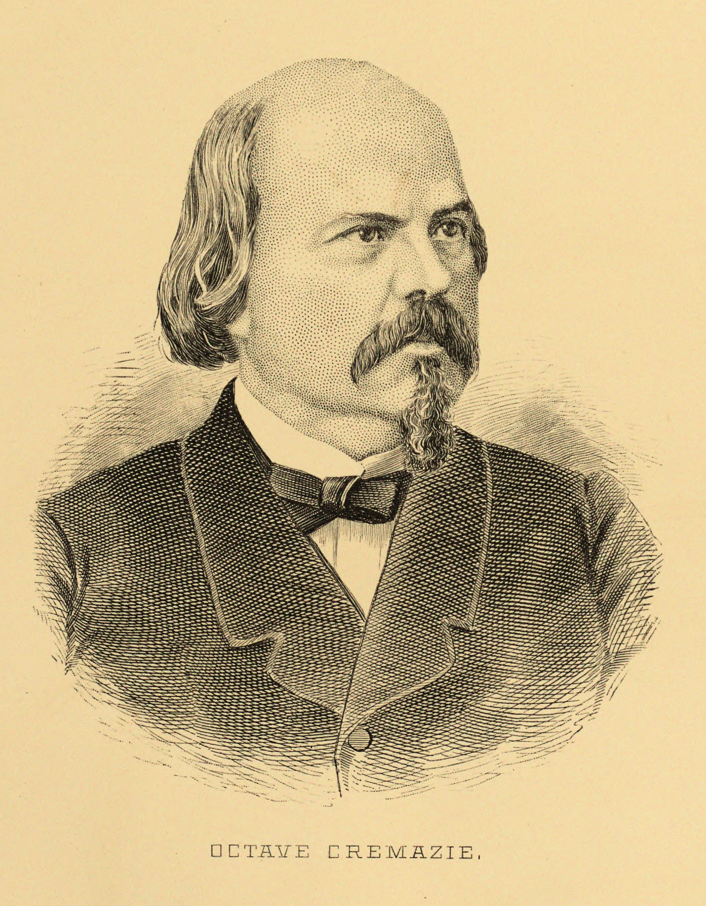 Image extracted from unnumbered of "Tome V" of Histoire des Canadiens-Français. 1608-1880. Ouvrage orné de portraits et de plans., by SULTE, Benjamin. Image processed.